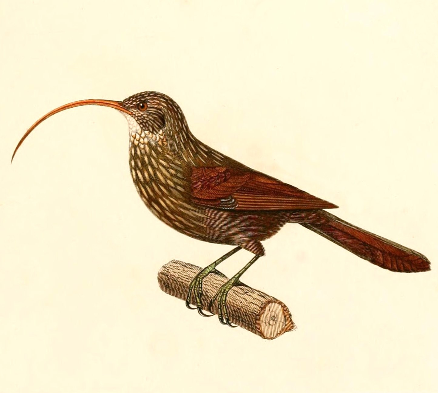 « Dendrocolaptes procurvus » = Campylorhamphus trochilirostris (Red-billed Scythebill)